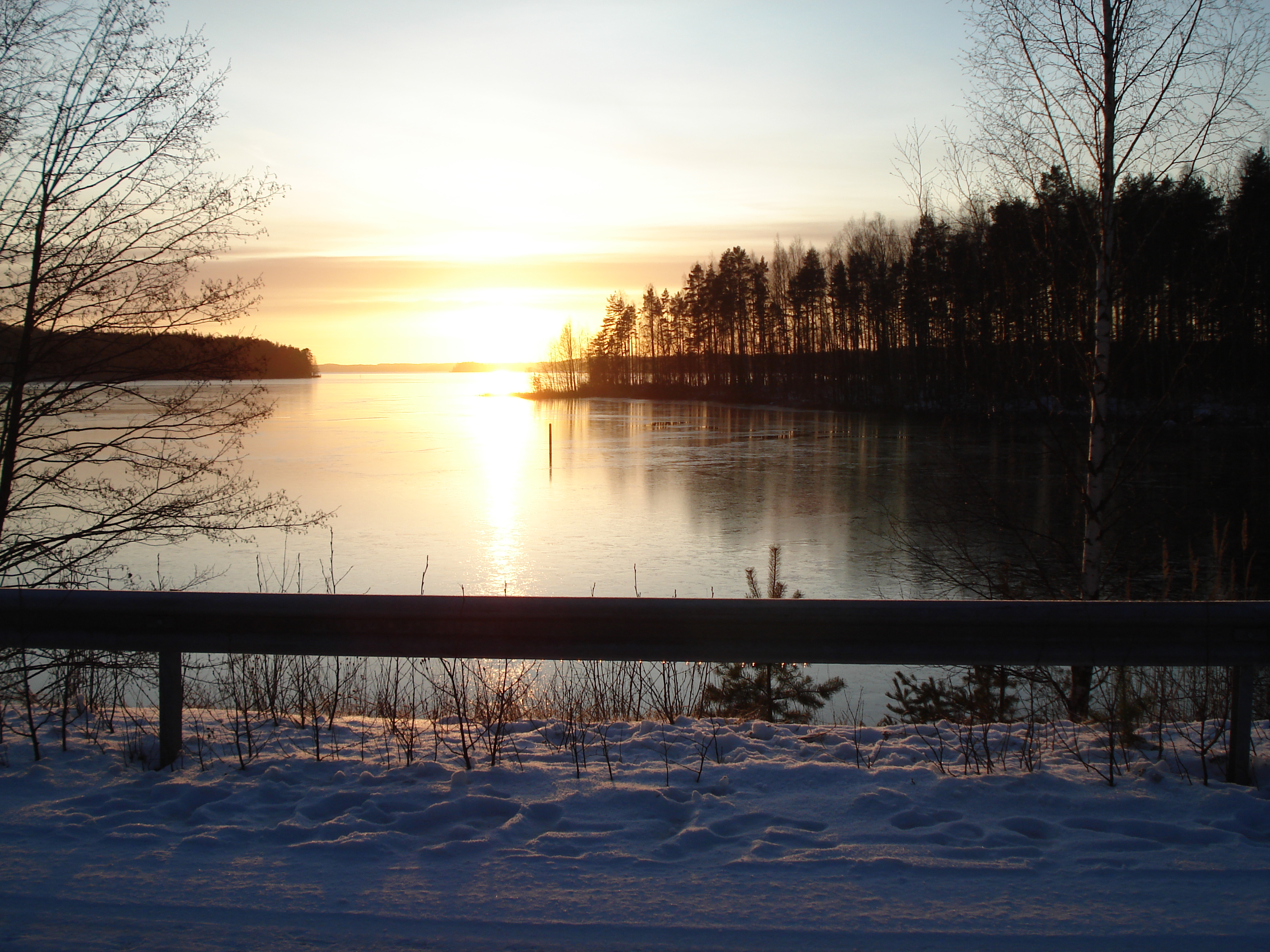 Hillosensalmi is a strait connecting the lakes Vuohijärvi and Repovesi in Kouvola, Finland